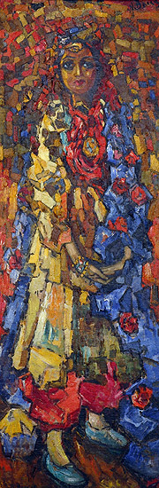 Alexander Volkov, "Persian Woman", 1916, oil on canvas, State Museum of Oriental Art, Moscow, Russia